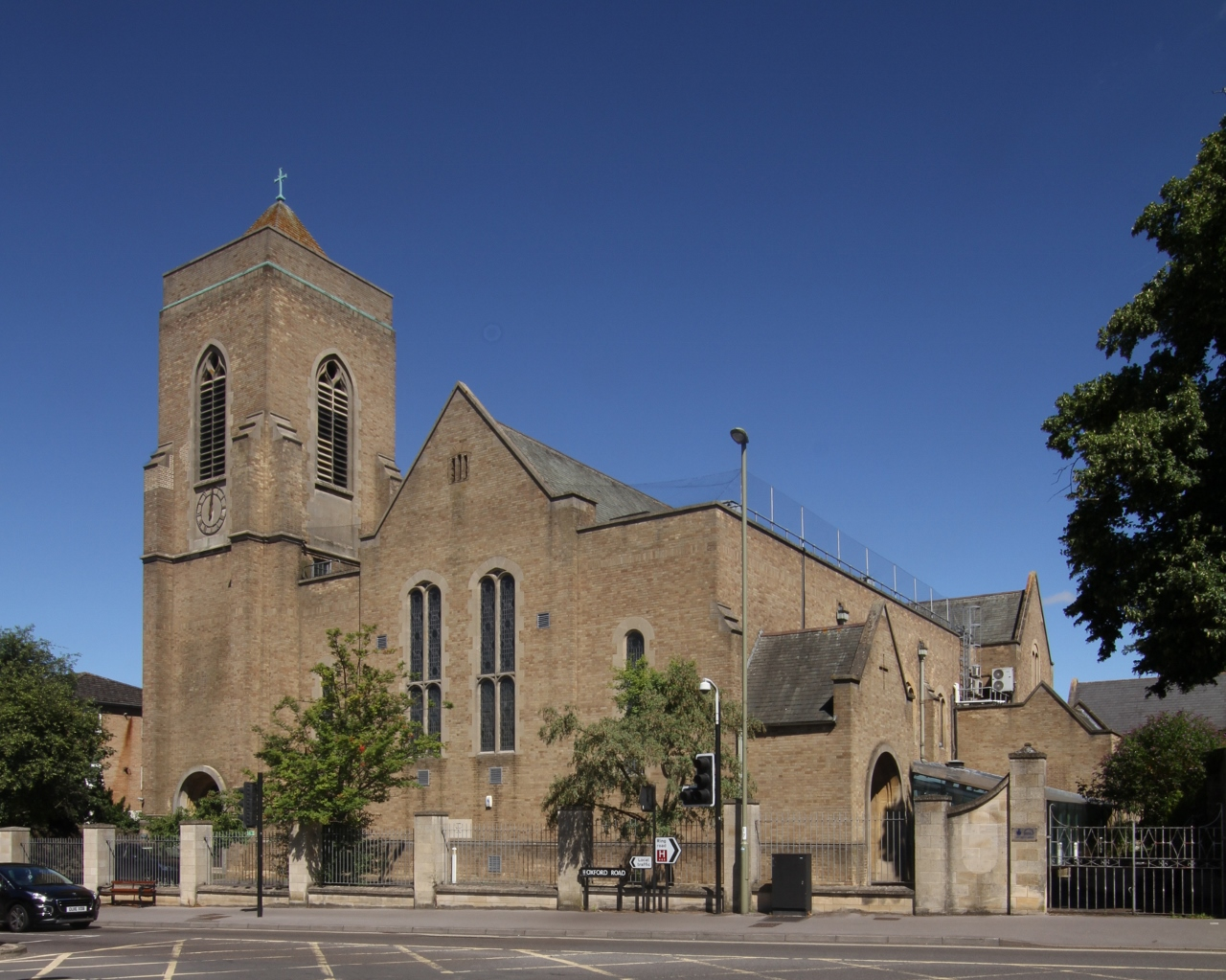 Oxford History Centre, Oxford Road, Cowley, Oxford, seen from the south from Between Towns Road. The building was completed in 1938 as St Luke's parish church.